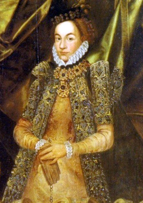 Portrait of the Duchess Sabina of Württemberg (1549-1581) — Landgravine of Hesse-Kassel, married to William IV, Landgrave of Hesse-Kassel.